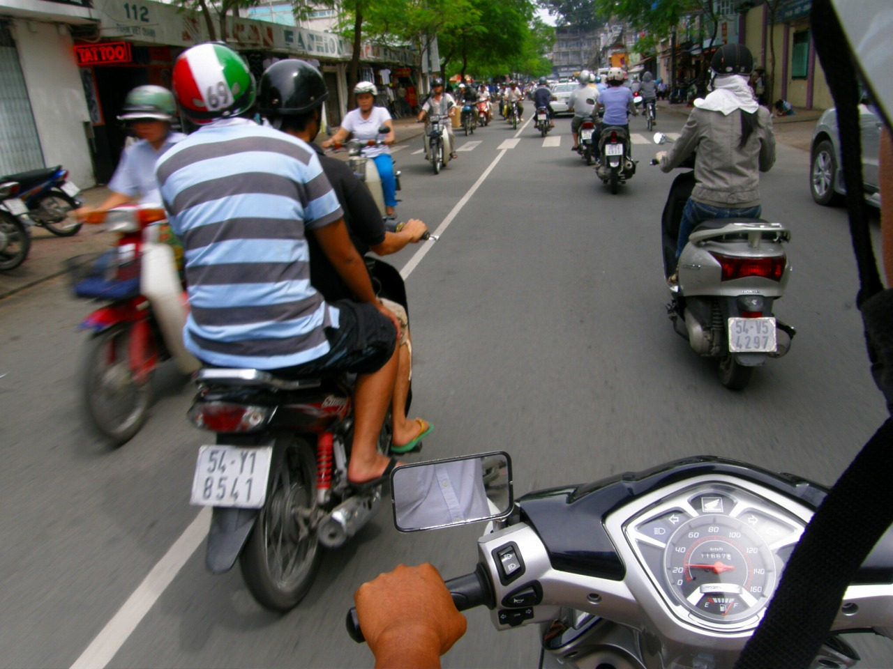 Bike Taxi Ho Chi Minh City